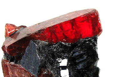 Galena, Rhodonite Locality: Broken Hill, Yancowinna County, New South Wales, Australia (Locality at ) Size: miniature, 4.4 x 2.4 x 2.4 cm Rhodonite on Galena A 2.3 x 0.6 x 0.5 cm crystal of GEM rhodonite, perched in contrasting galena matrix! GEMMY rhodonite crystals, of this magnitude, are SO rare! I am told this came out in the 1940s. The crystal is complete, and fully terminated (though as is typical, the termination is a bit rounded by nature). I have seen in 2 decades only 3 specimens of this calibre for sale. It is not about size, but about the beauty and quality of this gem crystal....this is a RARE treasure! I was shocked when i saw it available. the last one i handled was of similar size, and quality, and ended up selling for over 10k on the resale market